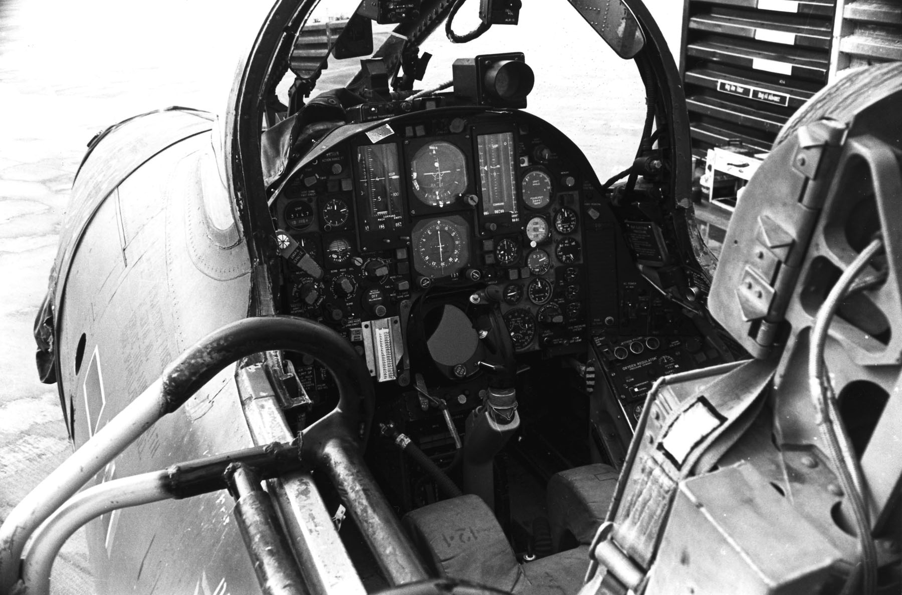 View of the cockpit of an U.S. Air Force Republic F-105D Thunderchief.